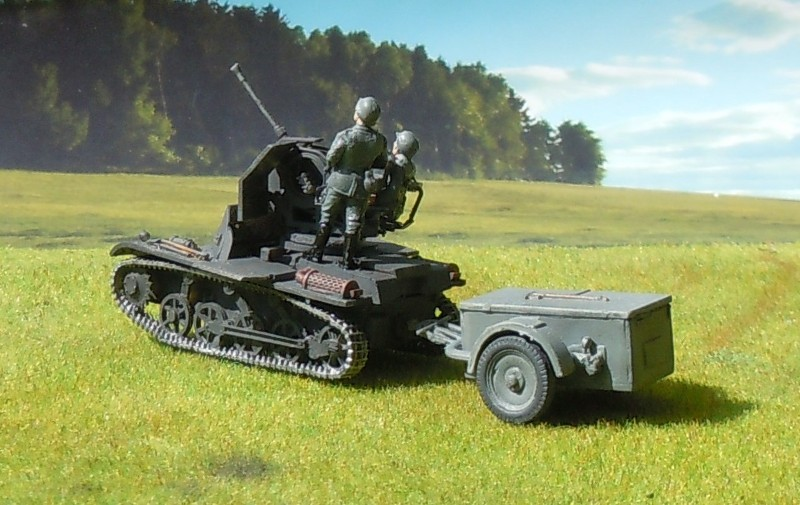 Model of a Flakpanzer I. More pics of the same model are on